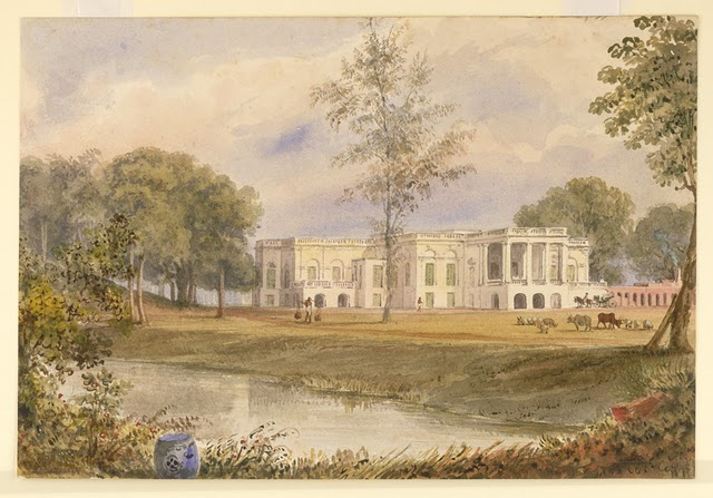 "Belvedere House Alipur Calcutta (Kolkata)," by the Anglo-Indian merchant and amateur painter William Prinsep. From the British Library: "Charles Robert Prinsep was living at Belvedere in 1838 when this drawing was probably made. The Prinsep family bought the house in 1841 and sold it to the East India Company in 1854. It was then used as the official residence of the Lieutenant-Governors of Bengal and subsequently became the National Library." Charles Robert Prinsep, standing counsel to the British East India Company, and sometime Advocate General of Bengal (1846, 1849, and 1852-1855), was also an active investor in Australia. He purchased the Belvedere Estate in Western Australia in 1838 to breed cavalry remounts for the Indian army.[1] Singapore's Prinsep Street is named for Charles Robert Prinsep, who owned the land which was once part of the Prinsep nutmeg estate, totaling some 6,700 trees.